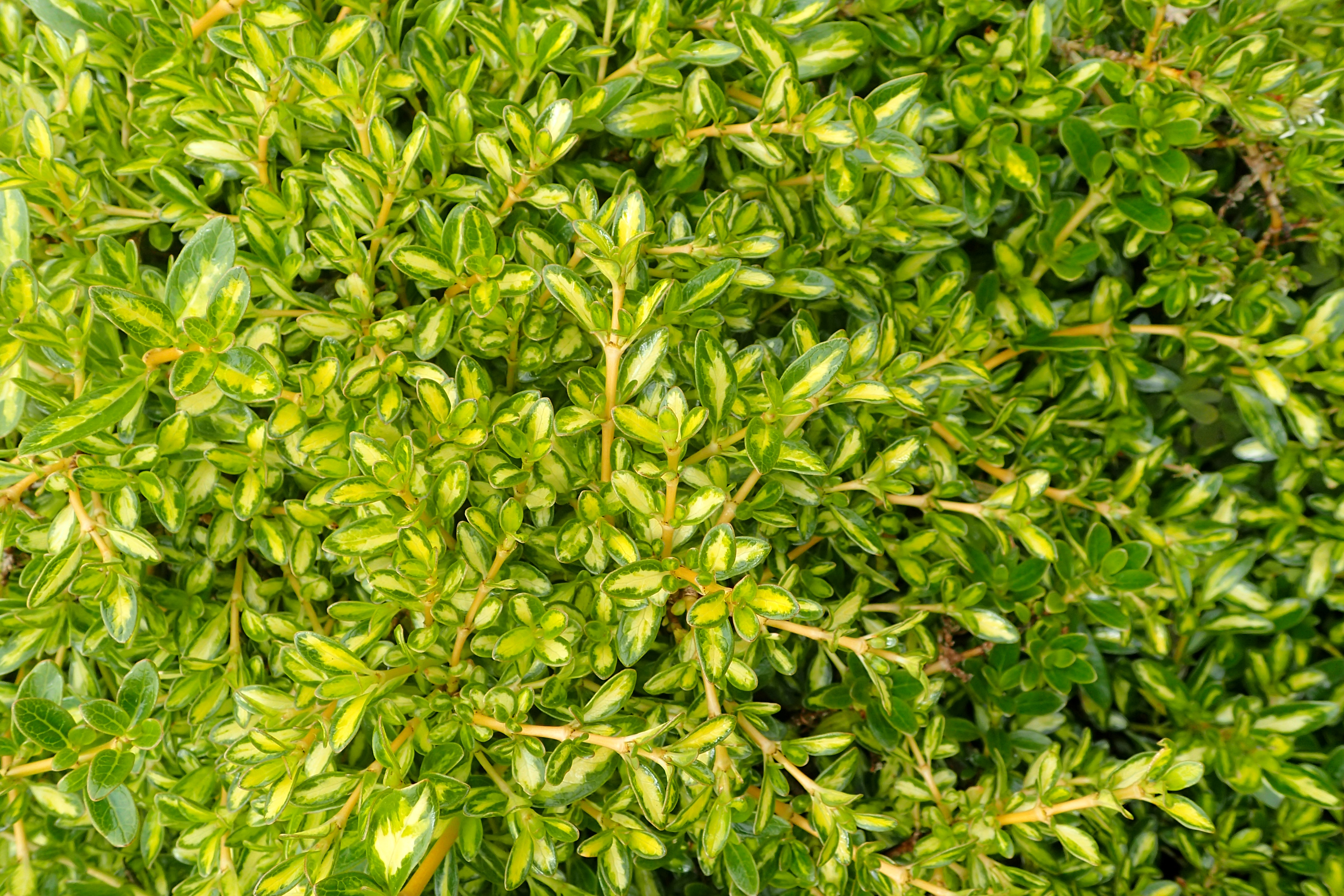 Coprosma 'Kiwi Gold' in Auckland Botanic Gardens